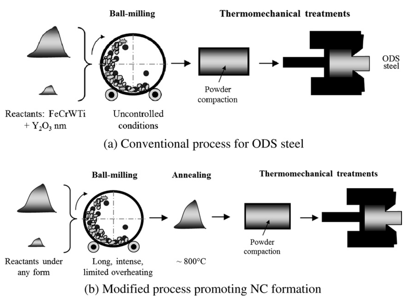 Simplifed scheme for ODS steel formation